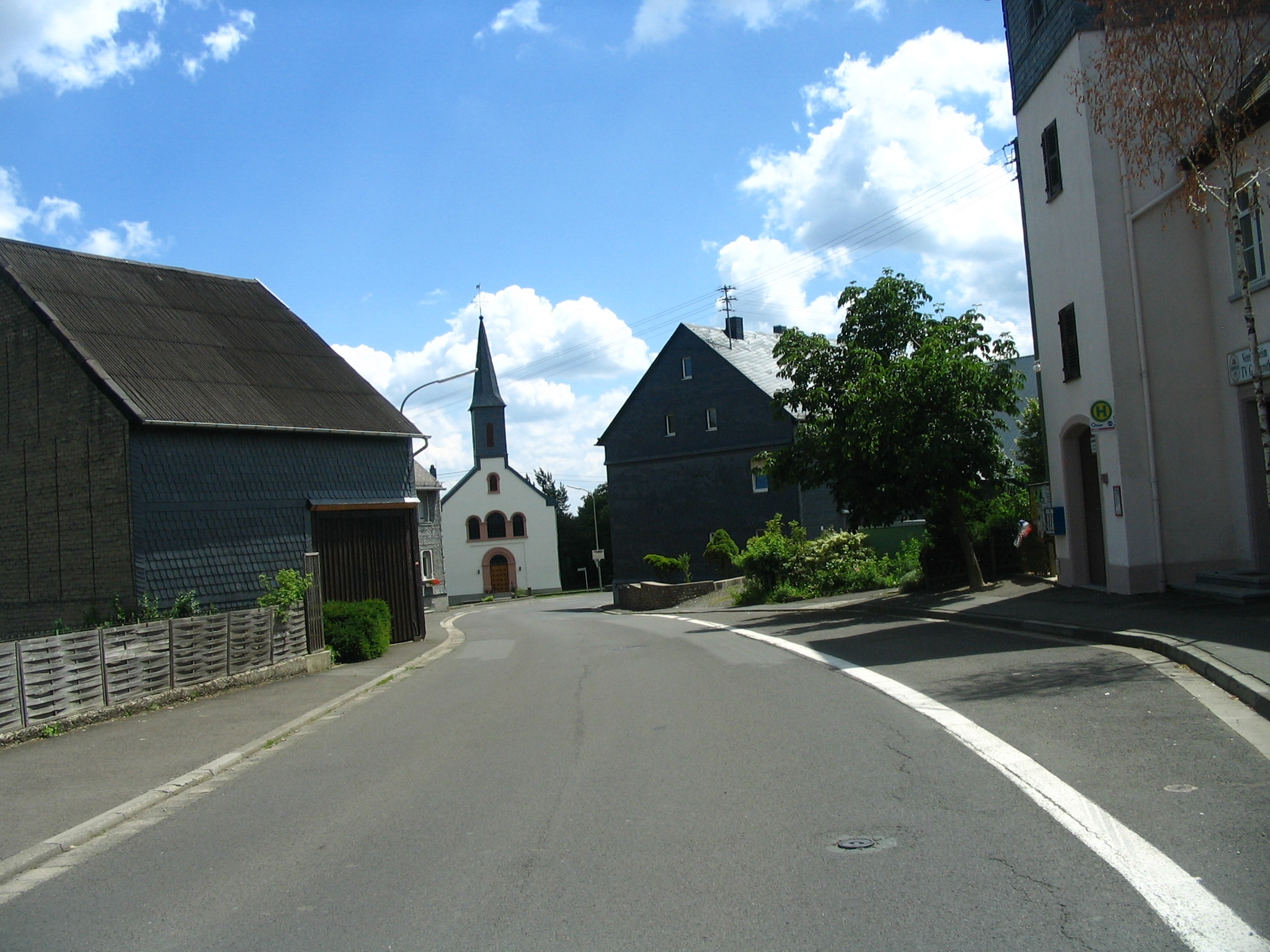 Churrch in Gösenroth in the Hunsrueck region, Germany